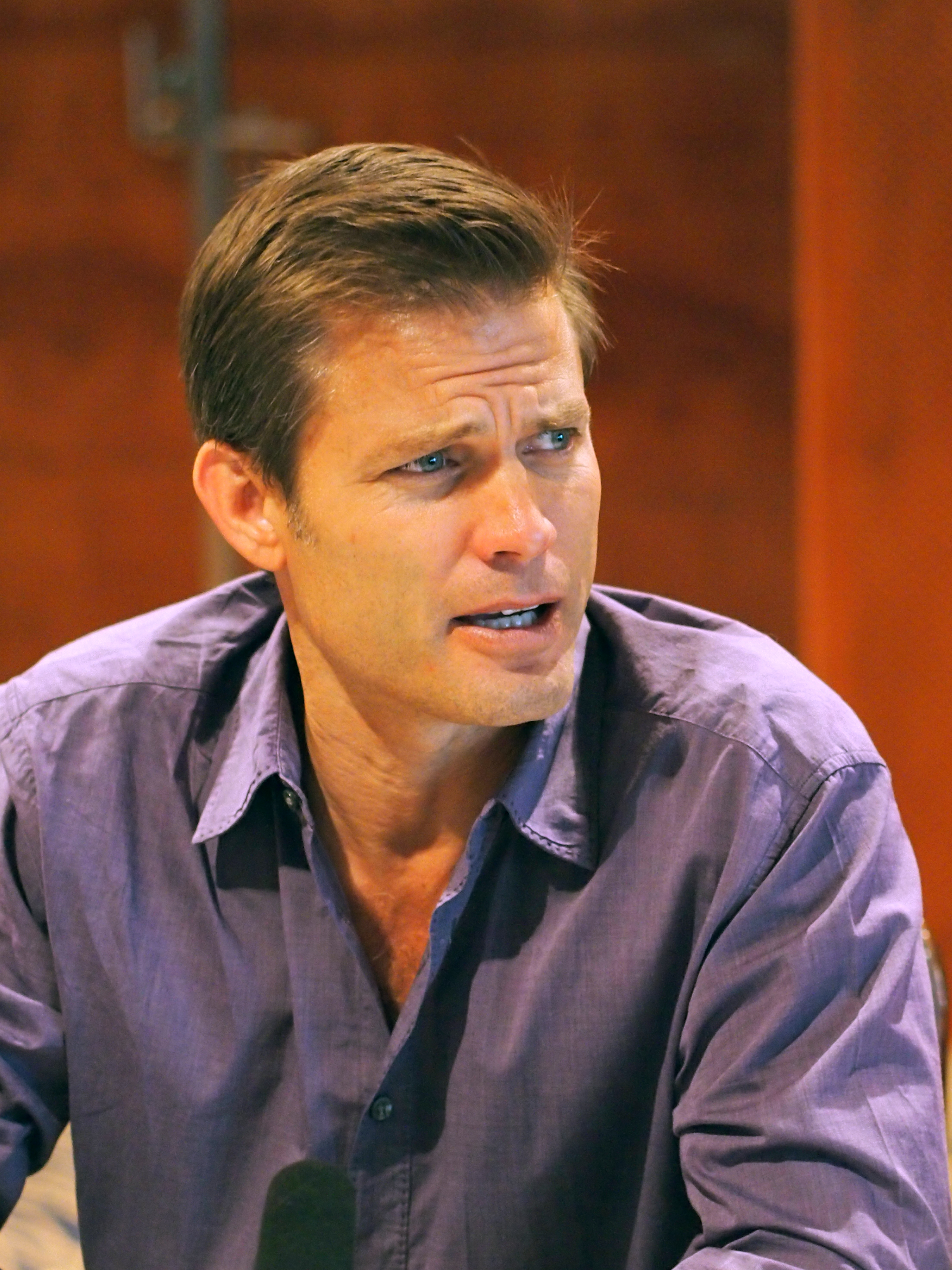 Casper Van Dien